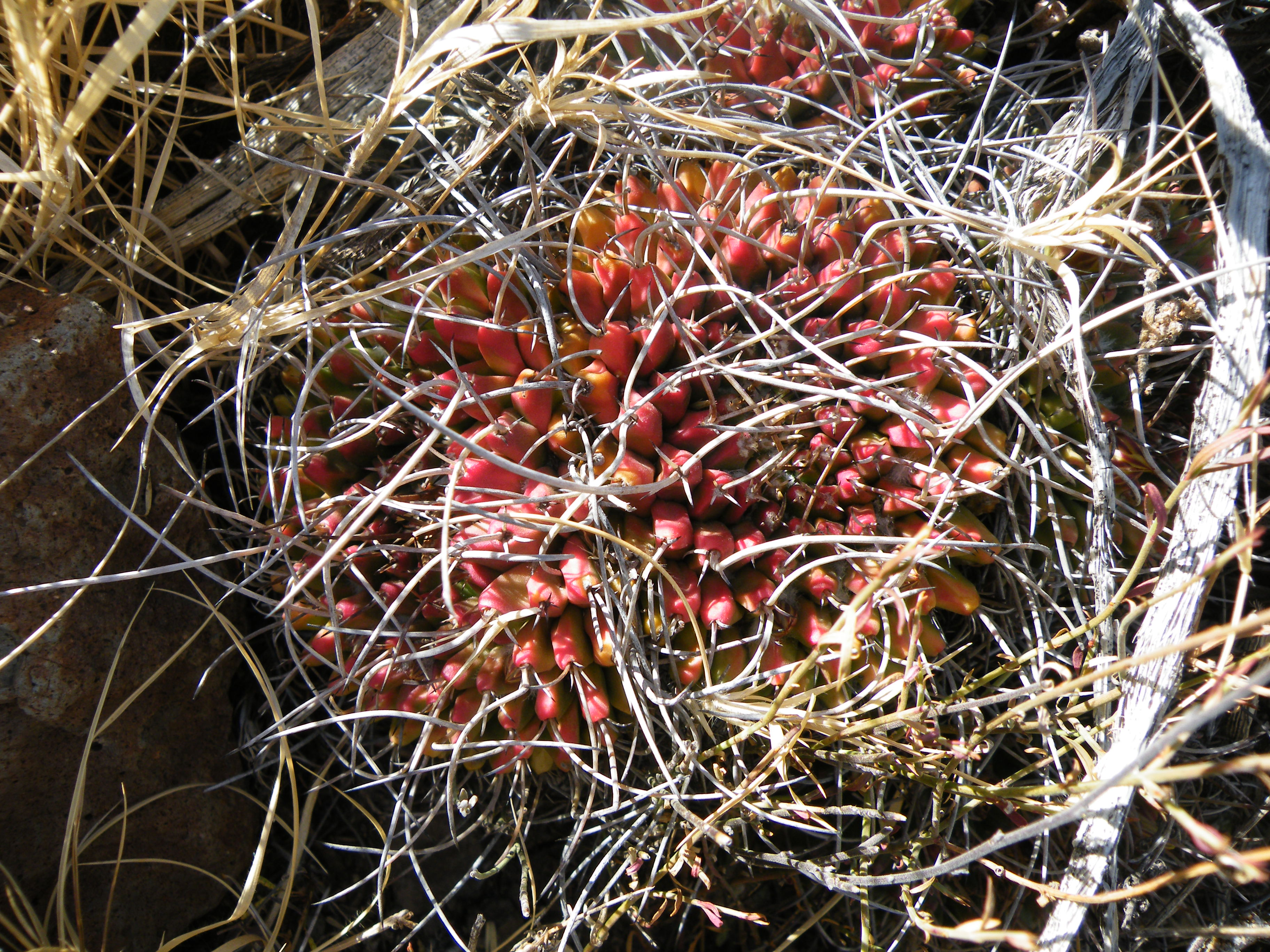 56 km South of Estacion Vanegas